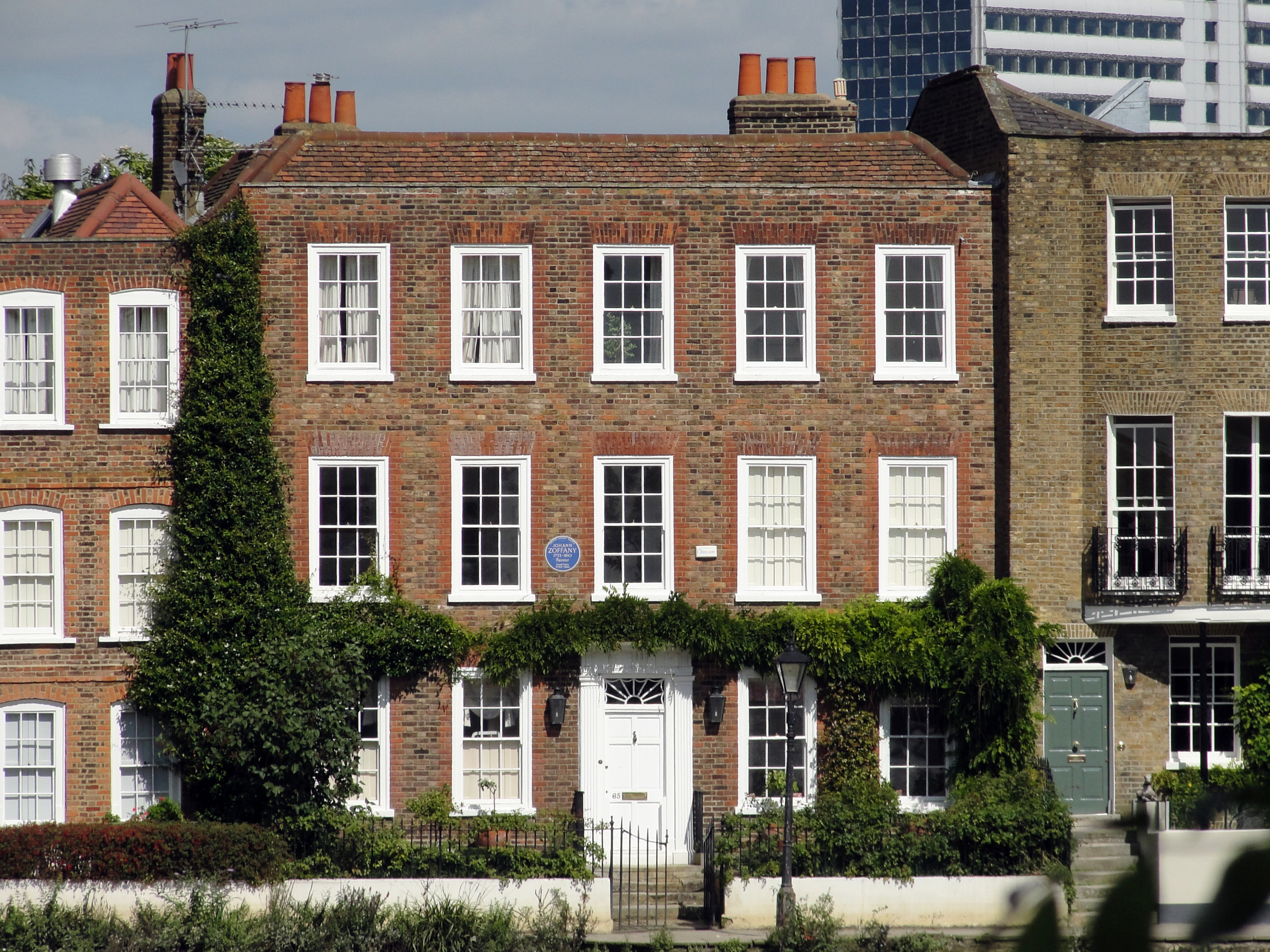 Strand on the Green, Chiswick, London, England. There is a blue plaque on the building indicating that that Johann Zoffany lived in this house. (More images)